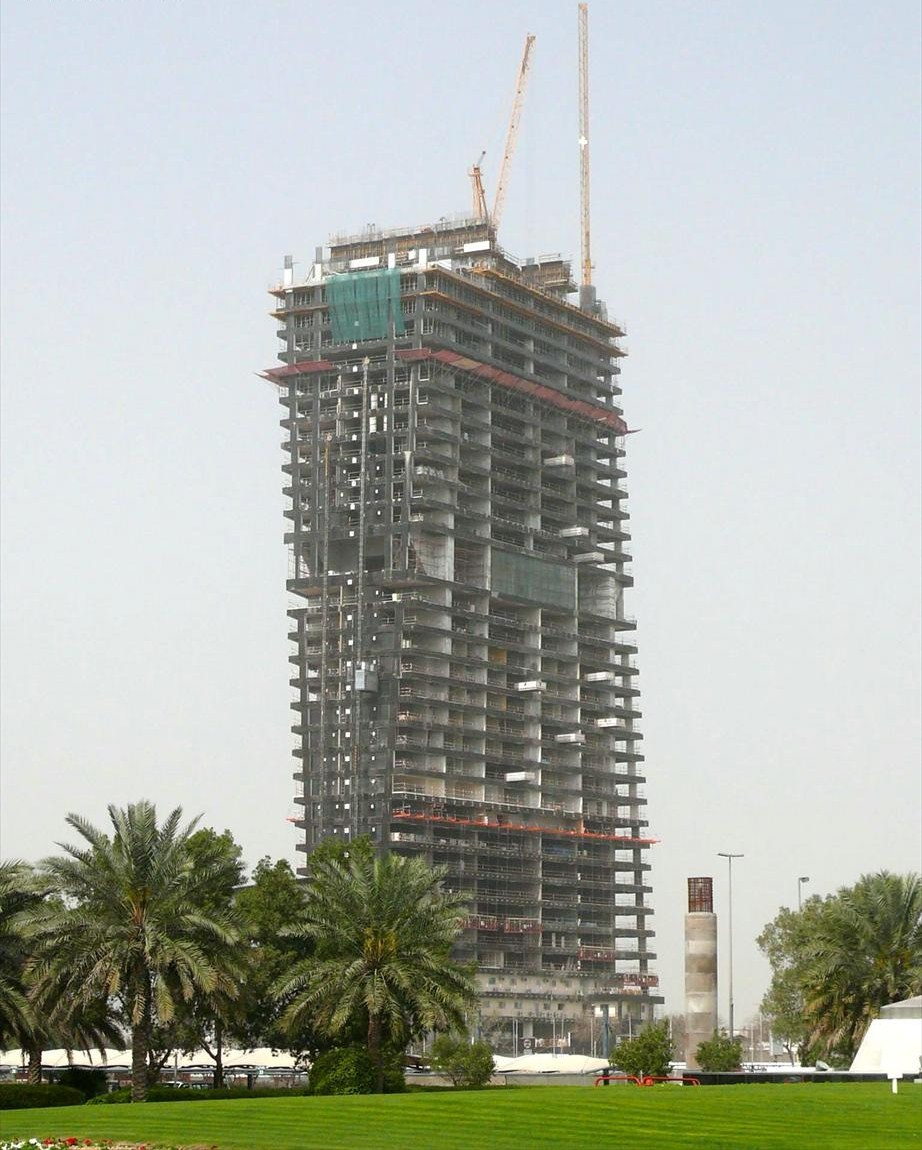 This is a photo showing the construction of Sama Tower, located along Sheikh Zayed Road in Dubai, United Arab Emirates, on 7 March 2008.